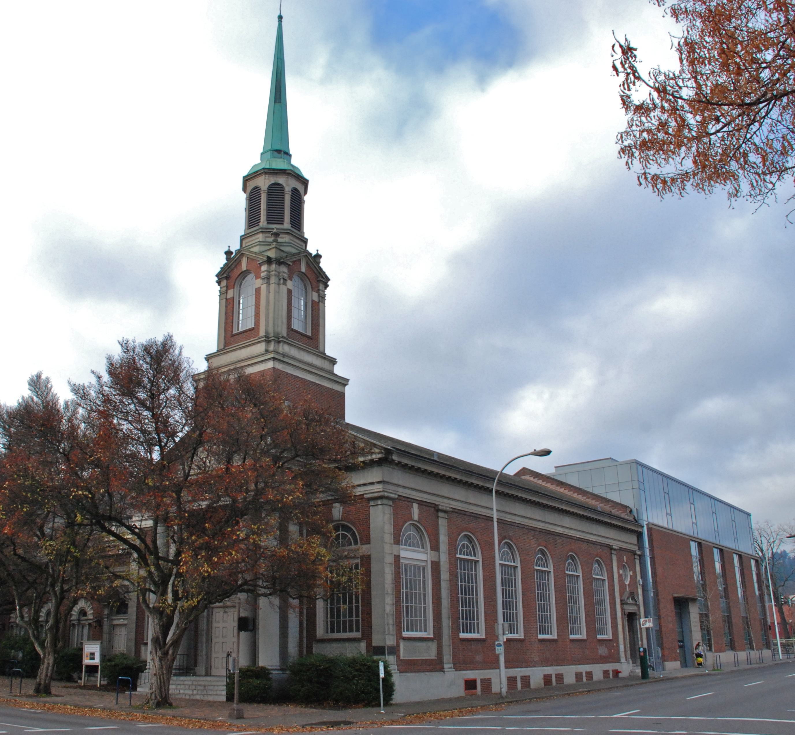 The First Unitarian Church of Portland's 1924 Colonial-style building, at SW 12th & Salmon in downtown Portland, is listed on the U.S. National Register of Historic Places, but nowadays is known as Eliot Chapel by church members, after having ceased to be used as the congregation's main sanctuary in 1979. At that time, the church purchased an adjacent building to the south (not visible here) and began using it for their regular Sunday services. Visible behind the 1924 building in this photo is a 20,000-square-foot new building known as the Buchan Building, which was constructed for the Unitarian Church in 2007.